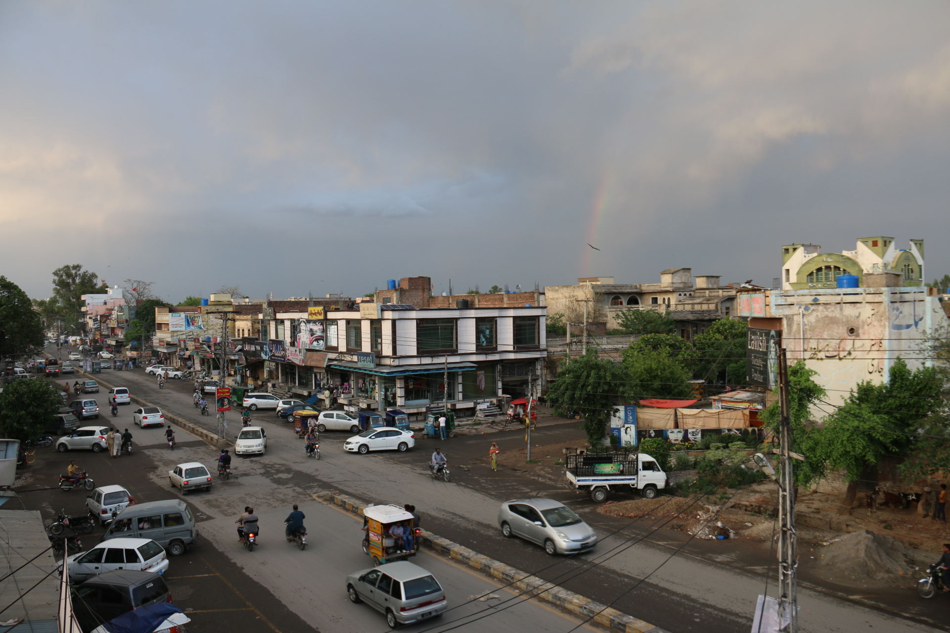 Allama Iqbal Road, Sialkot Cantt